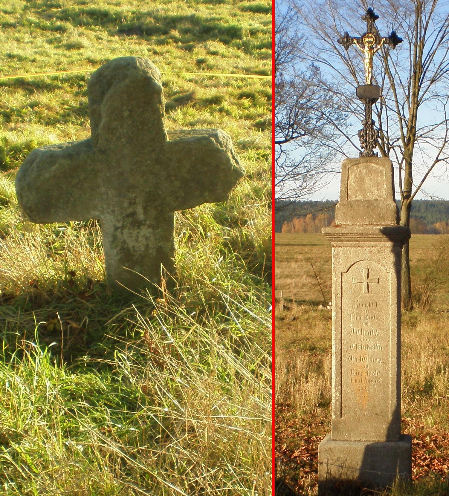 Stone crucifix and column of the crucification in Polná (Hazlov), Cheb District, Czech Republic.